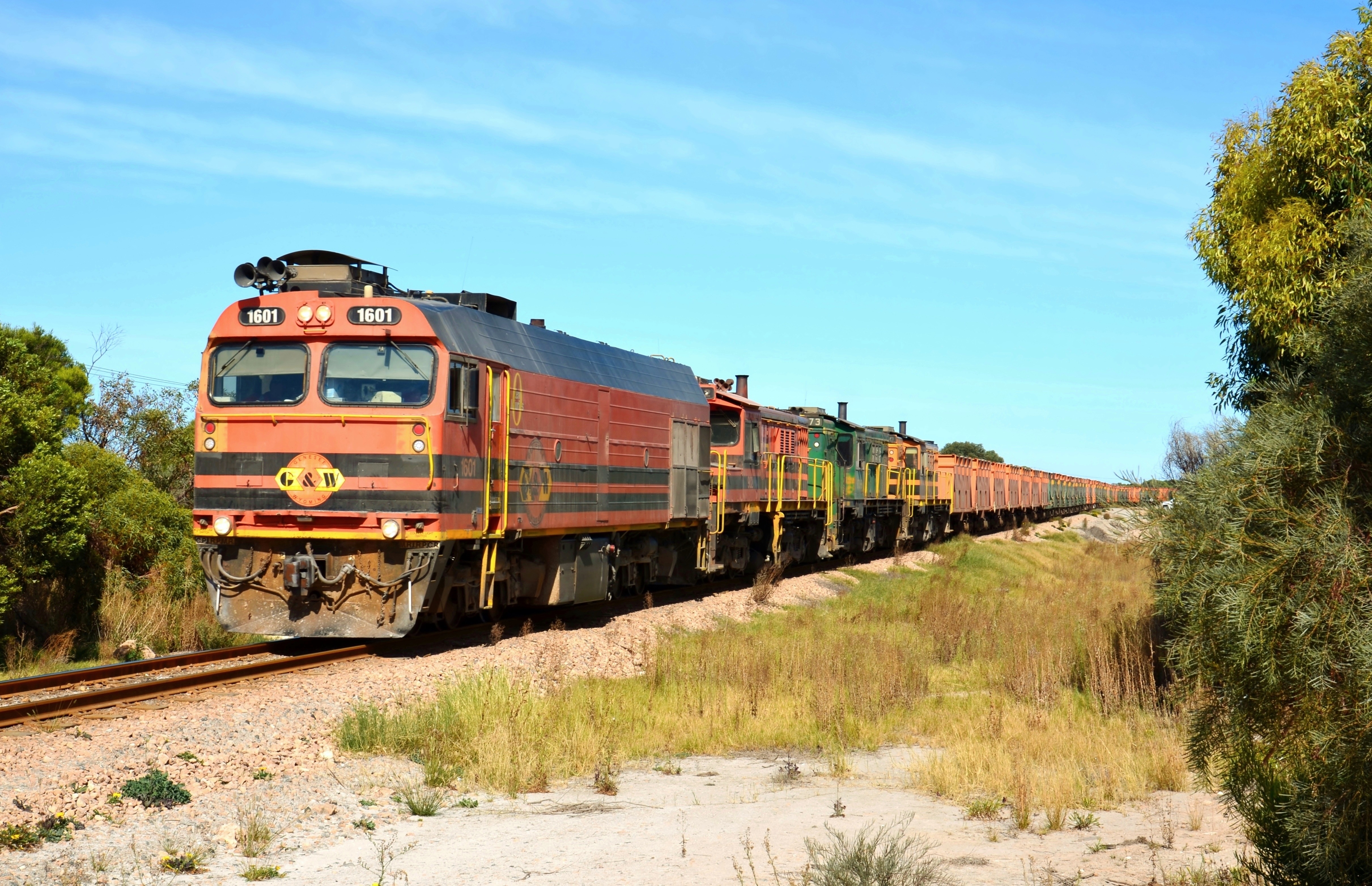 Genesee & Wyoming Australia locomotives 1601, 902, 873 and 850 departing from Thevenard, South Australia on the Eyre Peninsula Railway with a train of gypsum empties bound for the the Lake MacDonnell mine at Kevin near Penong.